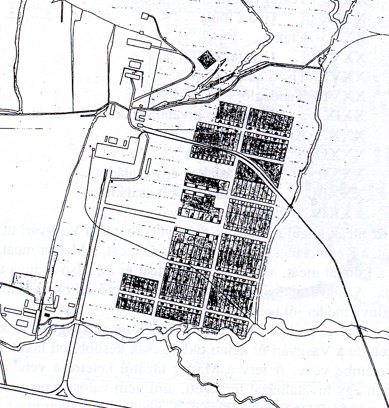 Map of the Diósgyőr-Vasgyár housing project, 1873